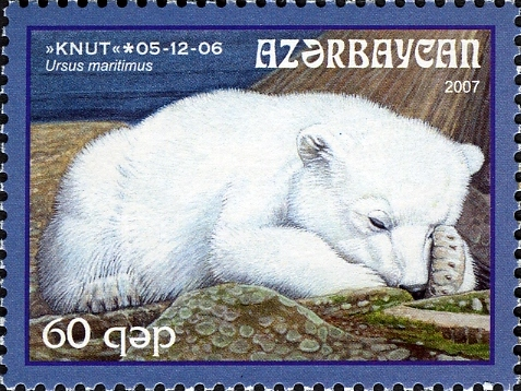 Polar Bear No 796 - 60 gapik. There is pictured asleep Polar bear-cub on the stamp. Half part of the stamp is printed on the sheet 10 (2x5), other part - on the sheet 4 (2x2).